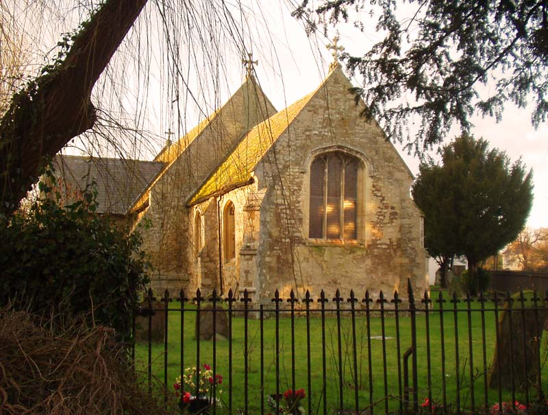 A 14th Century Church along the high street in Little Thetford, Ely, Cambridgeshire.